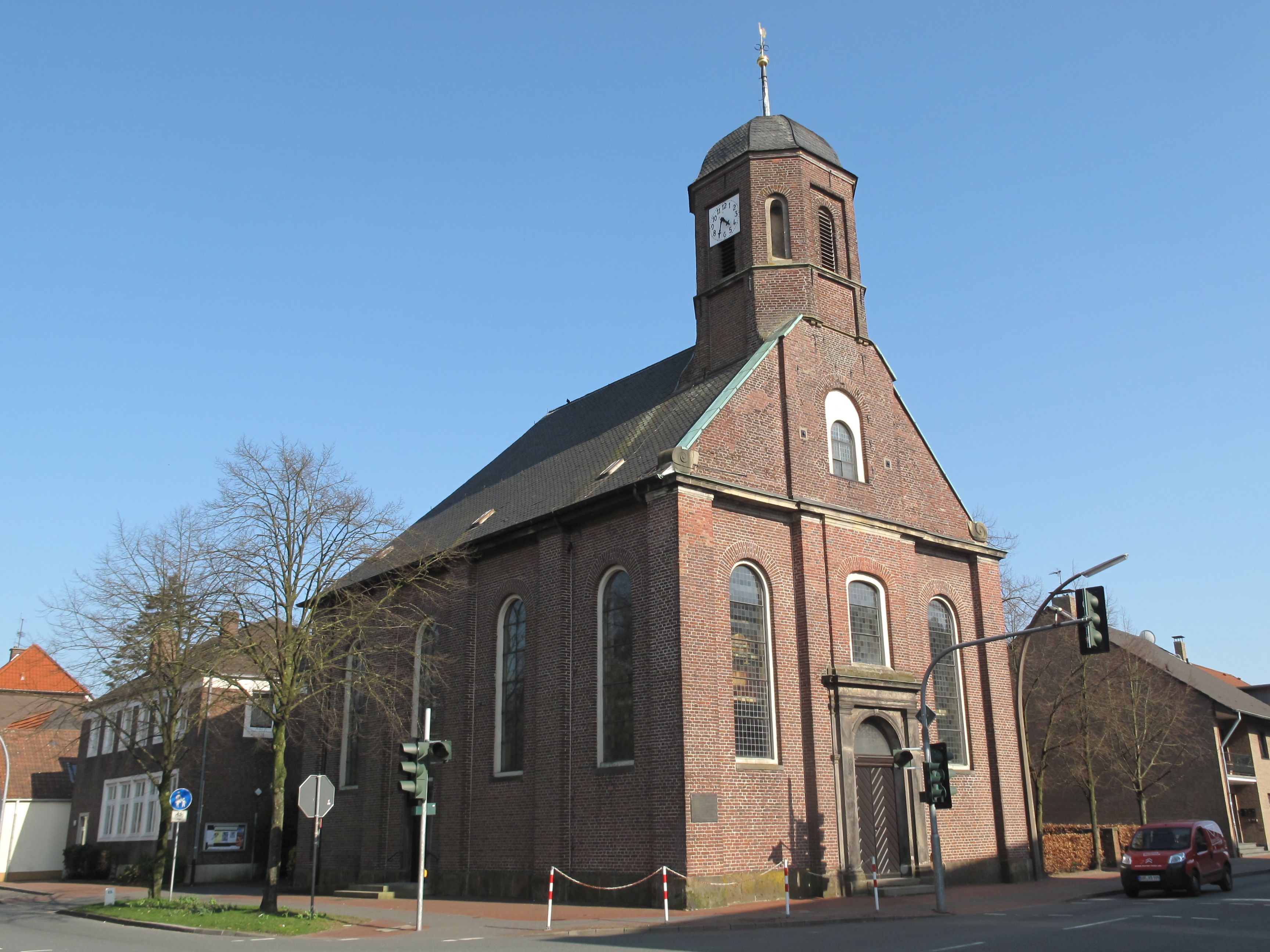 Gemen, church: die Johannes Kirche